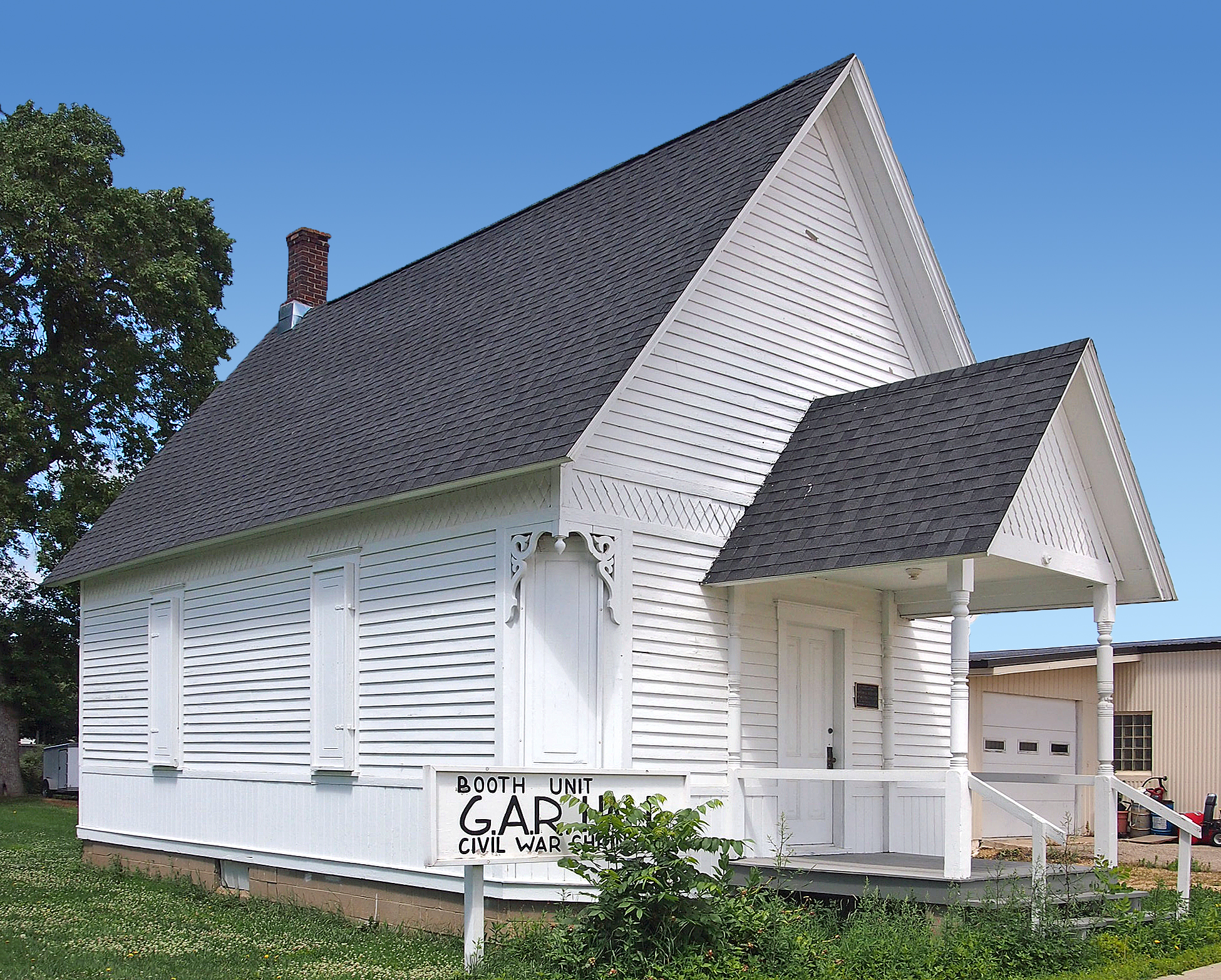 Booth Grand Army of the Republic Hall, Grand Meadow, Minnesota, USA. Viewed from the southeast.